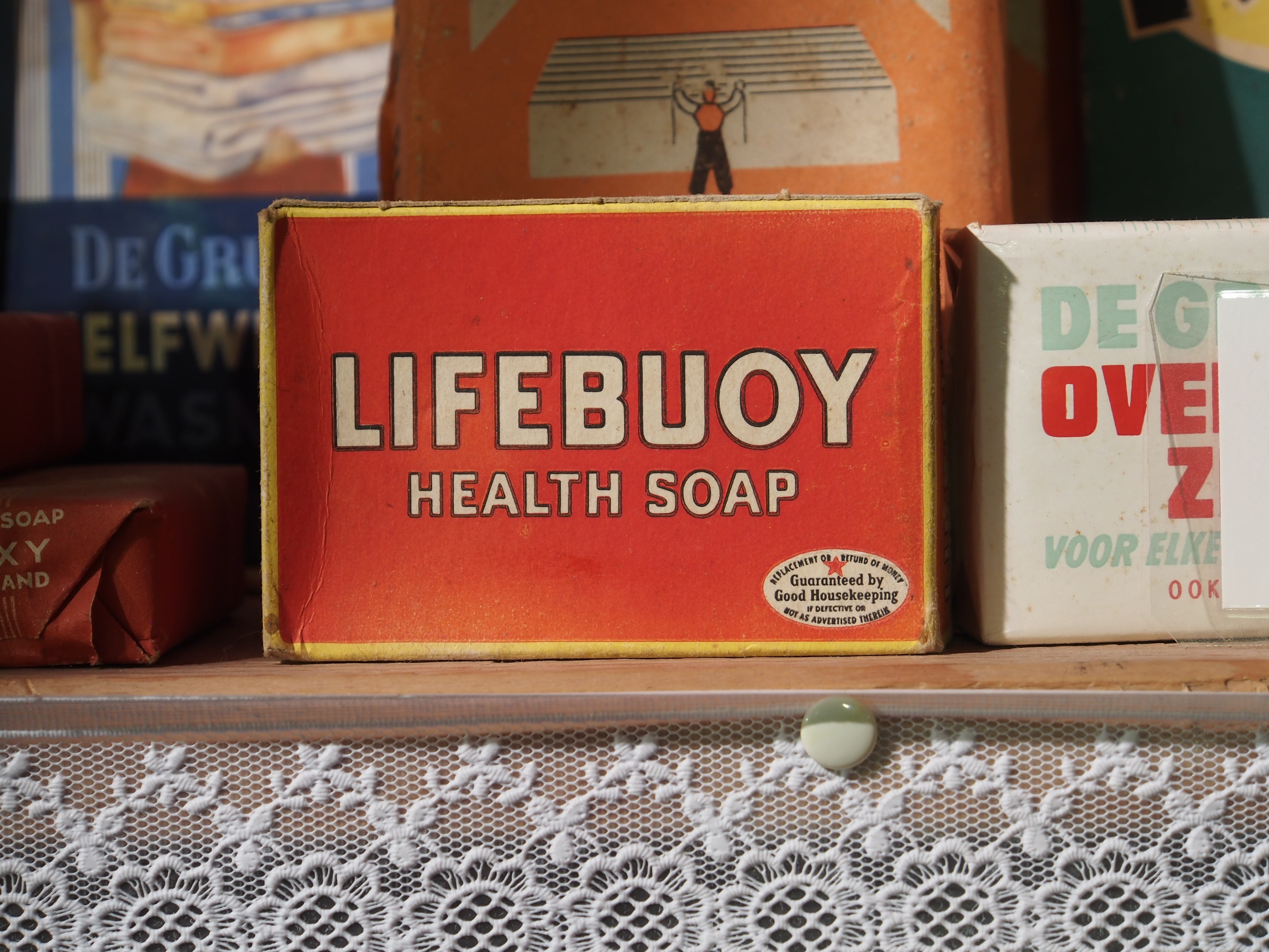 Photographed at the Museum in den Halven Maen, The Netherlands. Photo of a very old product that is not produced and not sold anymore.